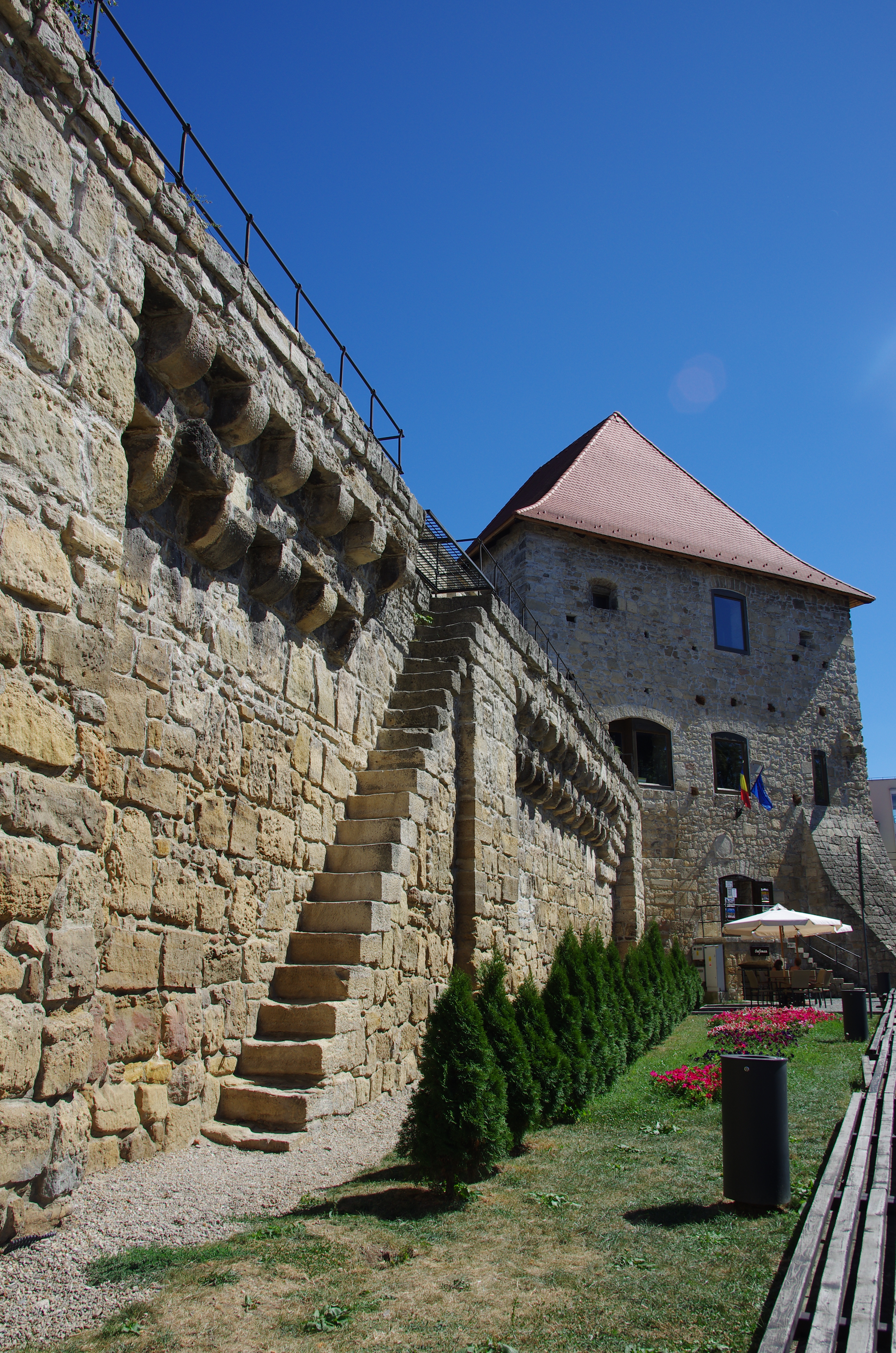 Cluj City Walls, Tailor's Bastion 2012